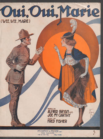 Sheet music cover for the World War I song Oui, Oui, Marie.